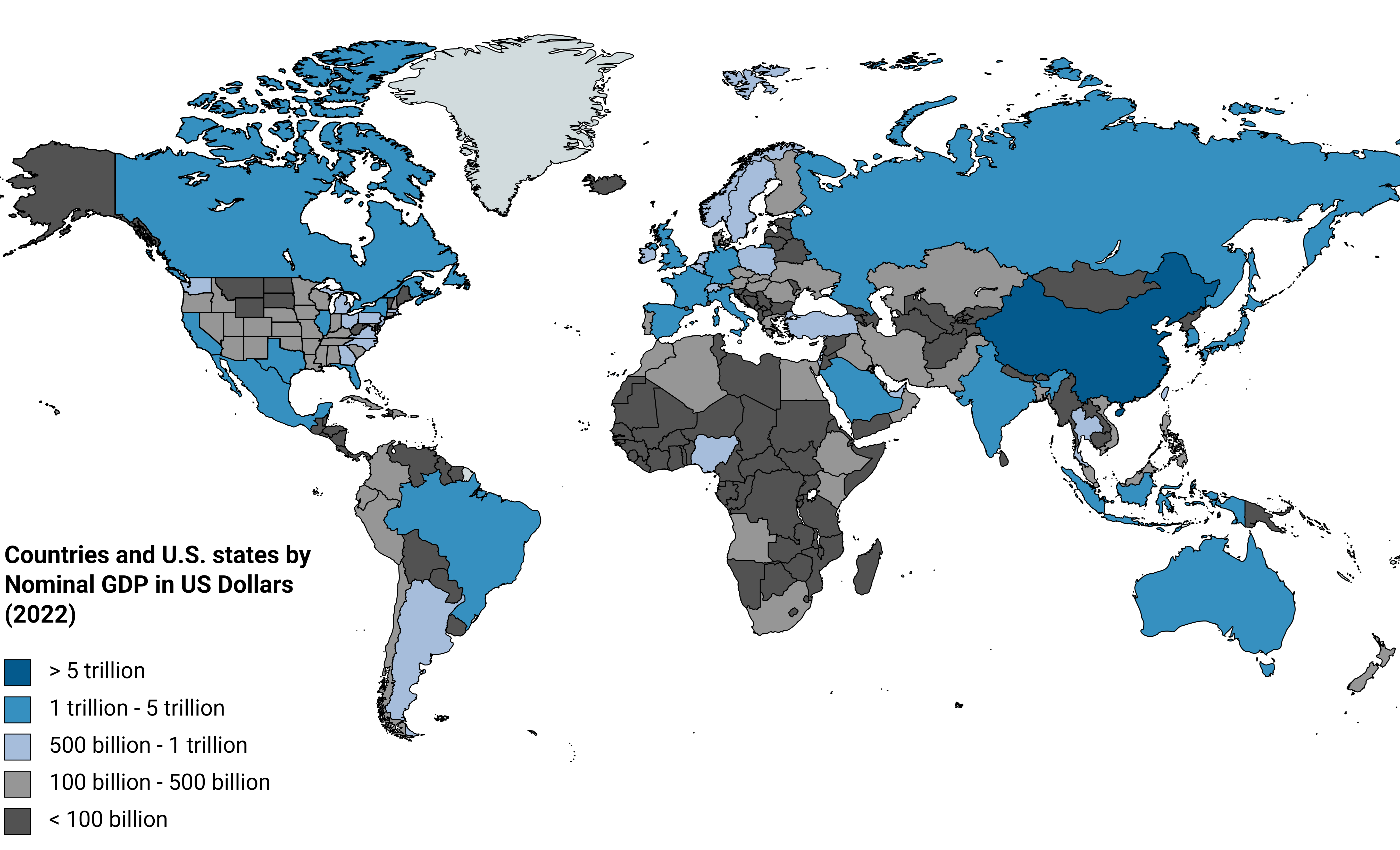 Compares US States' nominal GDP with countries, in Billions of US Dollars, as listed on Comparison between U.S. states and countries nominal GDP, based on world gdp map